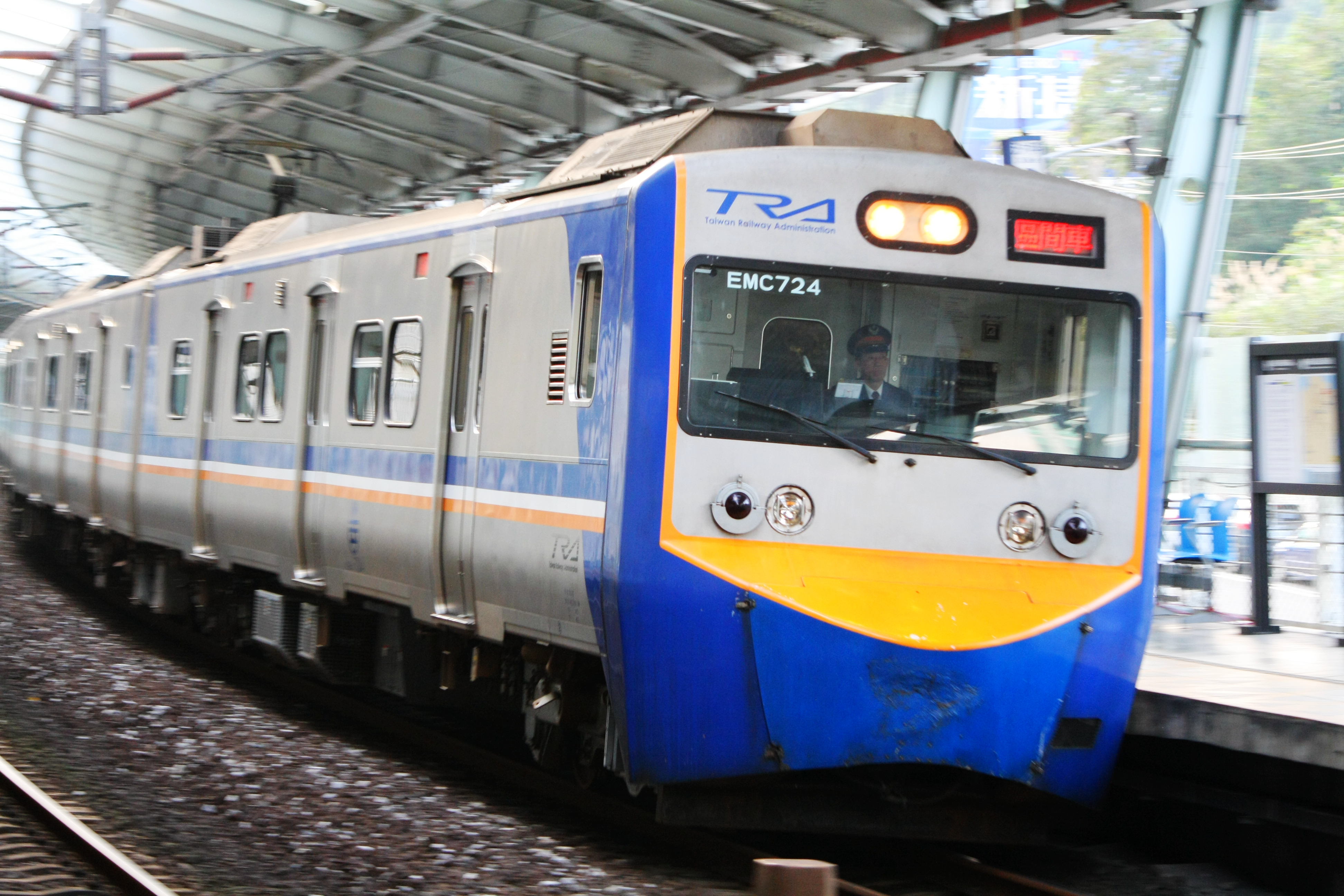 台鐵EMU724進汐科站